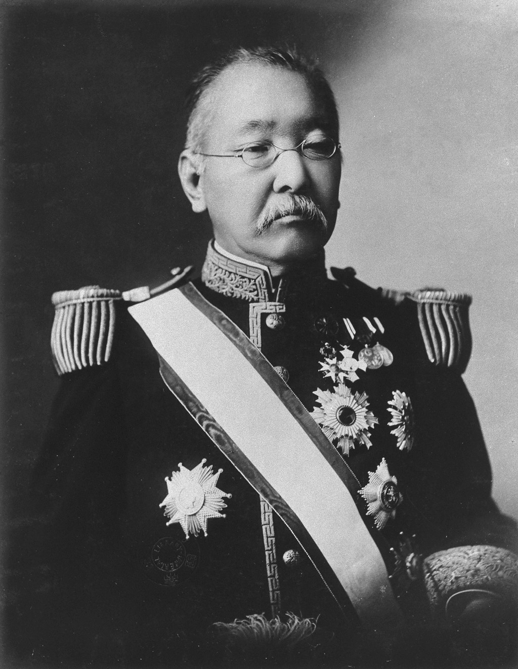 Portrait of Hachisuka Mochiaki (蜂須賀茂韶, 1846 – 1918)